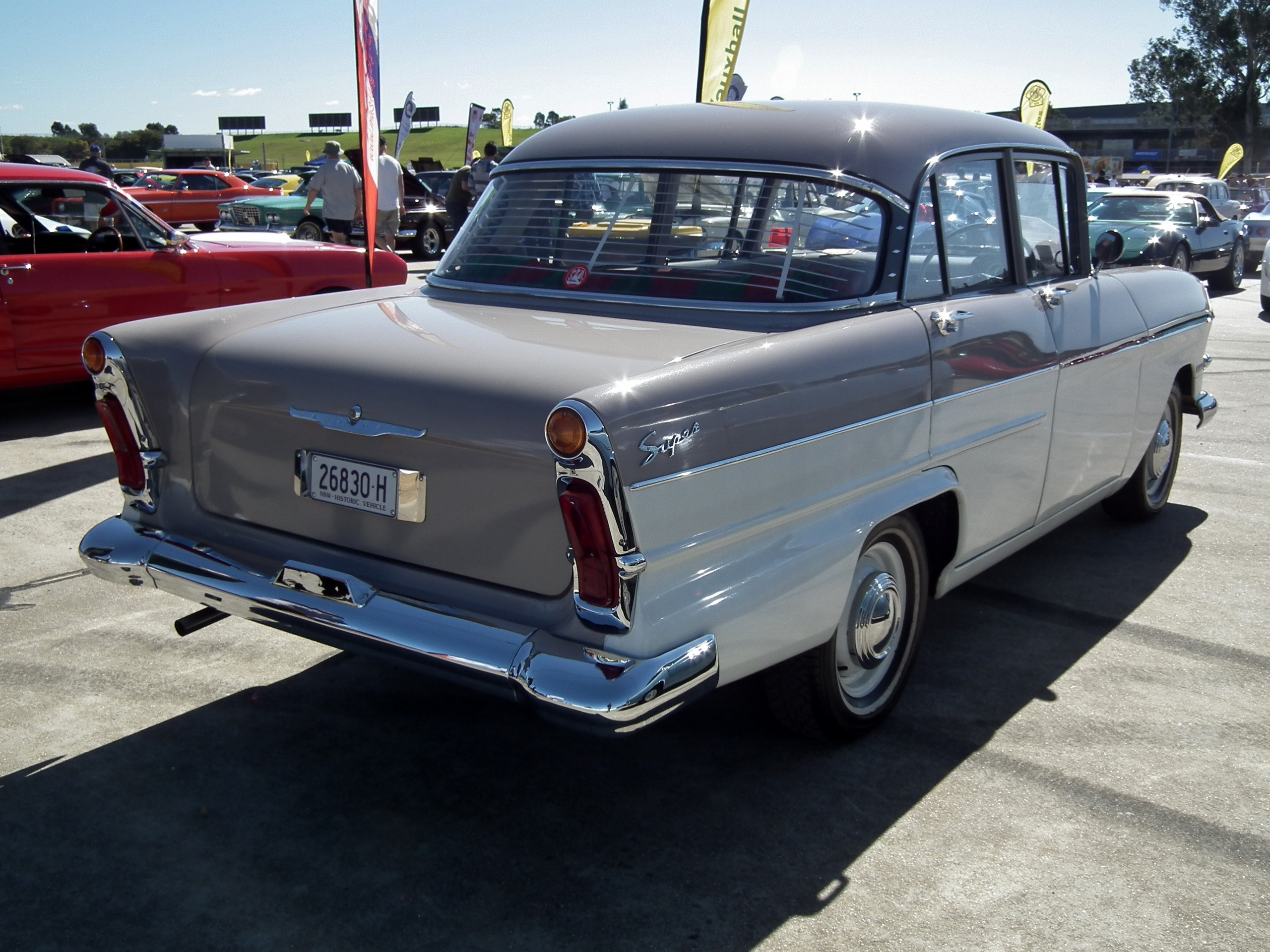 1960 Vauxhall Victor F series II Deluxe sedan. Taken at the 2013 Shannon's Eastern Creek Classic display day, held at Sydney Motorsport Park.